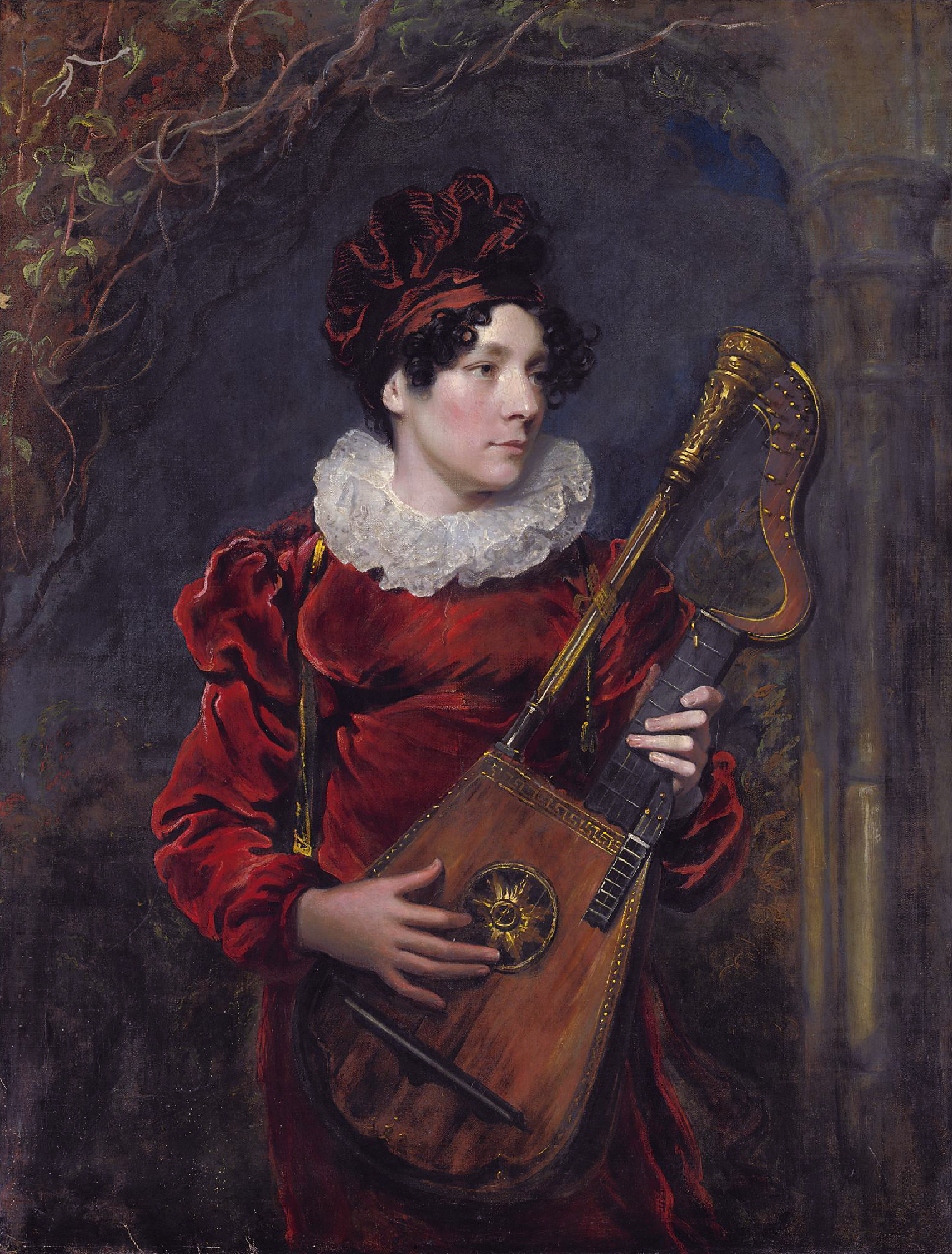 Kitty Stephens, later Countess of Essex (1794 - 1882) playing a harp lute